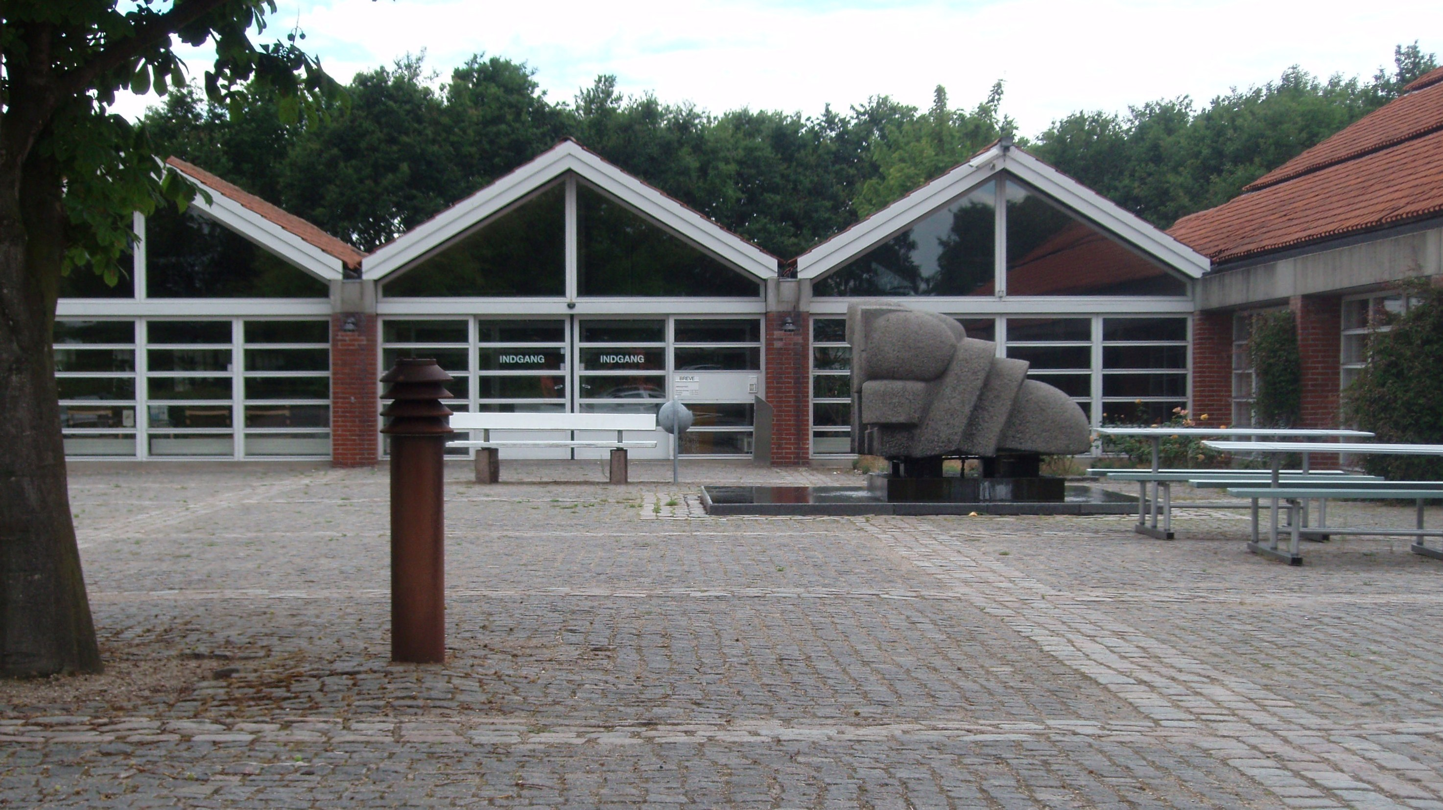 Old City Hall in Nordborg, former administration center in Sønderborg Kommune, now health centre